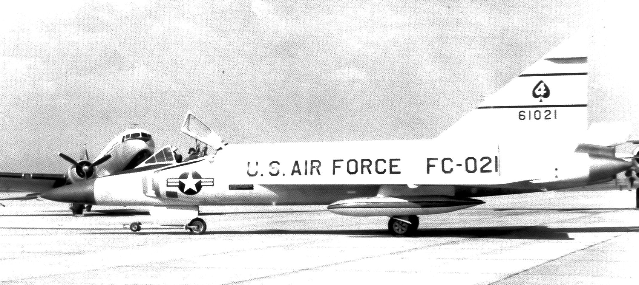 47th Fighter-Interceptor Squadron Convair F-102A-55-CO Delta Dagger 56-1021 15th Fighter Group, Niagara Falls Municipal Airport, New York 1959 56-1021 (32nd FIS) suffered major hydraulic failure and crashed near Zevenhoven, Netherlands Sept 25, 1961. Pilot ejected safely.